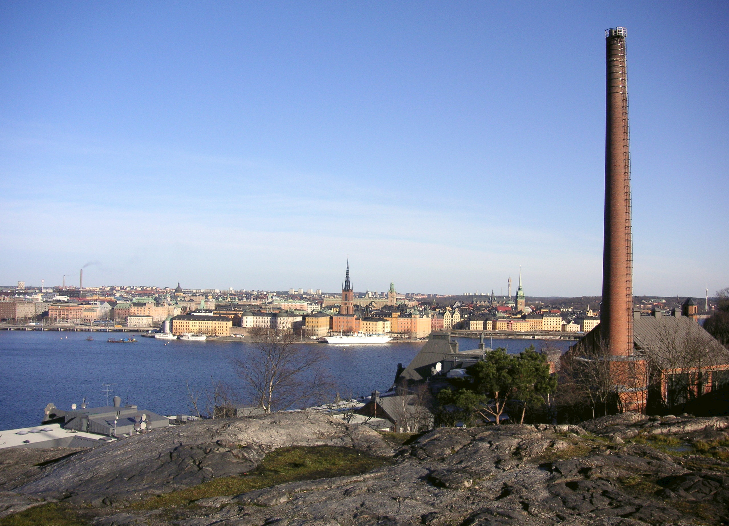 View from Skinnarviksberget, Hornstull, Södermalm, Stockholm, Sweden